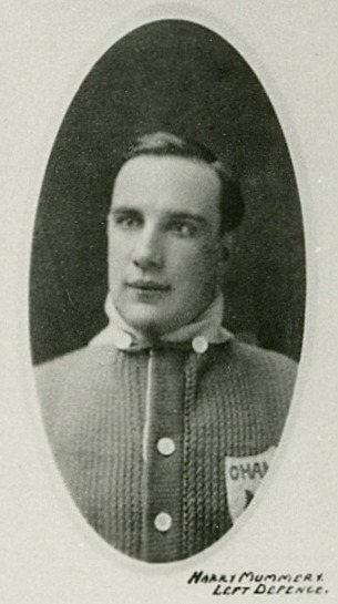 Harry Mummery of Toronto Arenas hockey club ca. 1917–1918